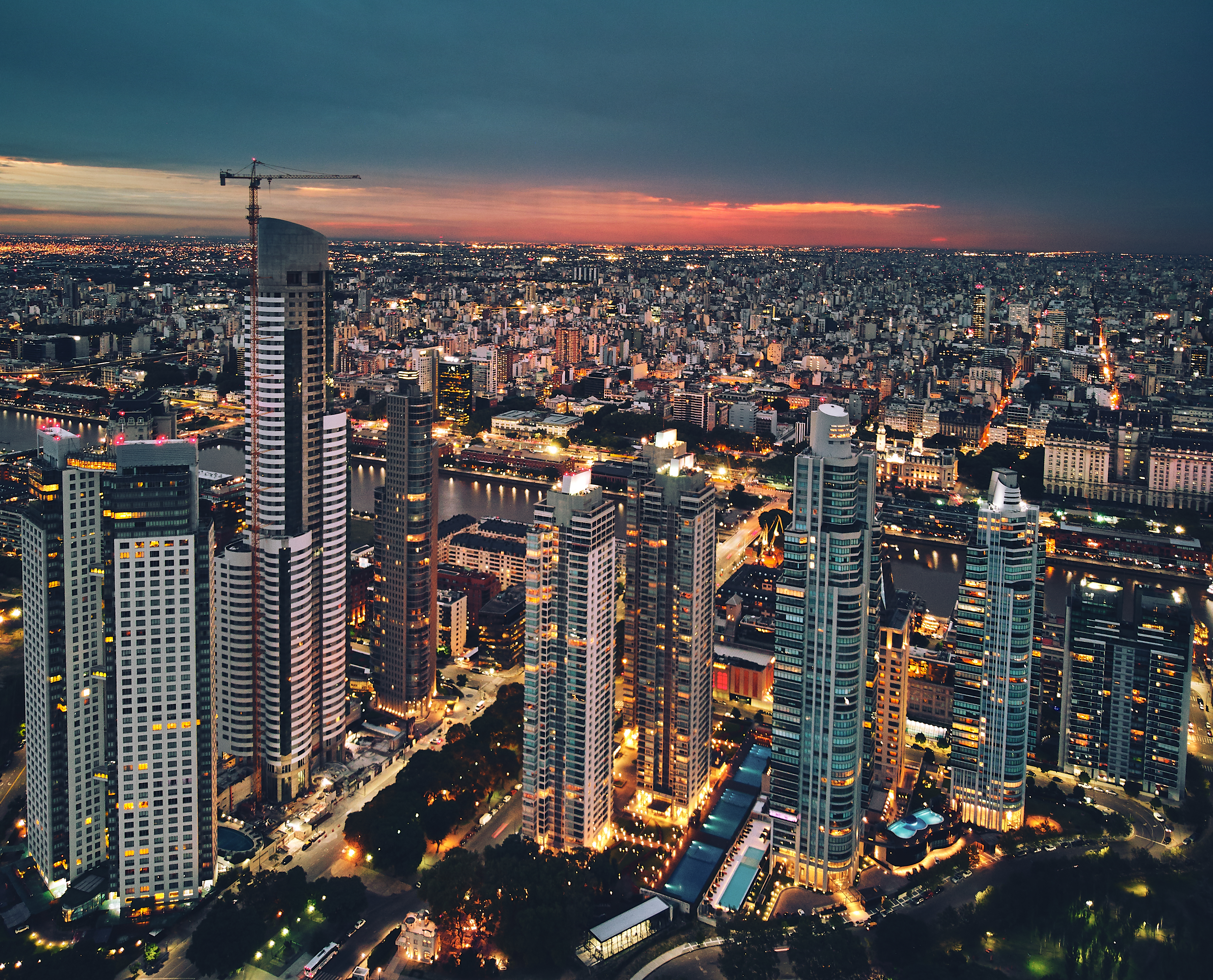 High-rises of Puerto Madero